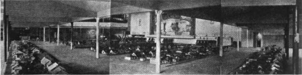 Tiny Town village sections at Springfield (MO) convention hall